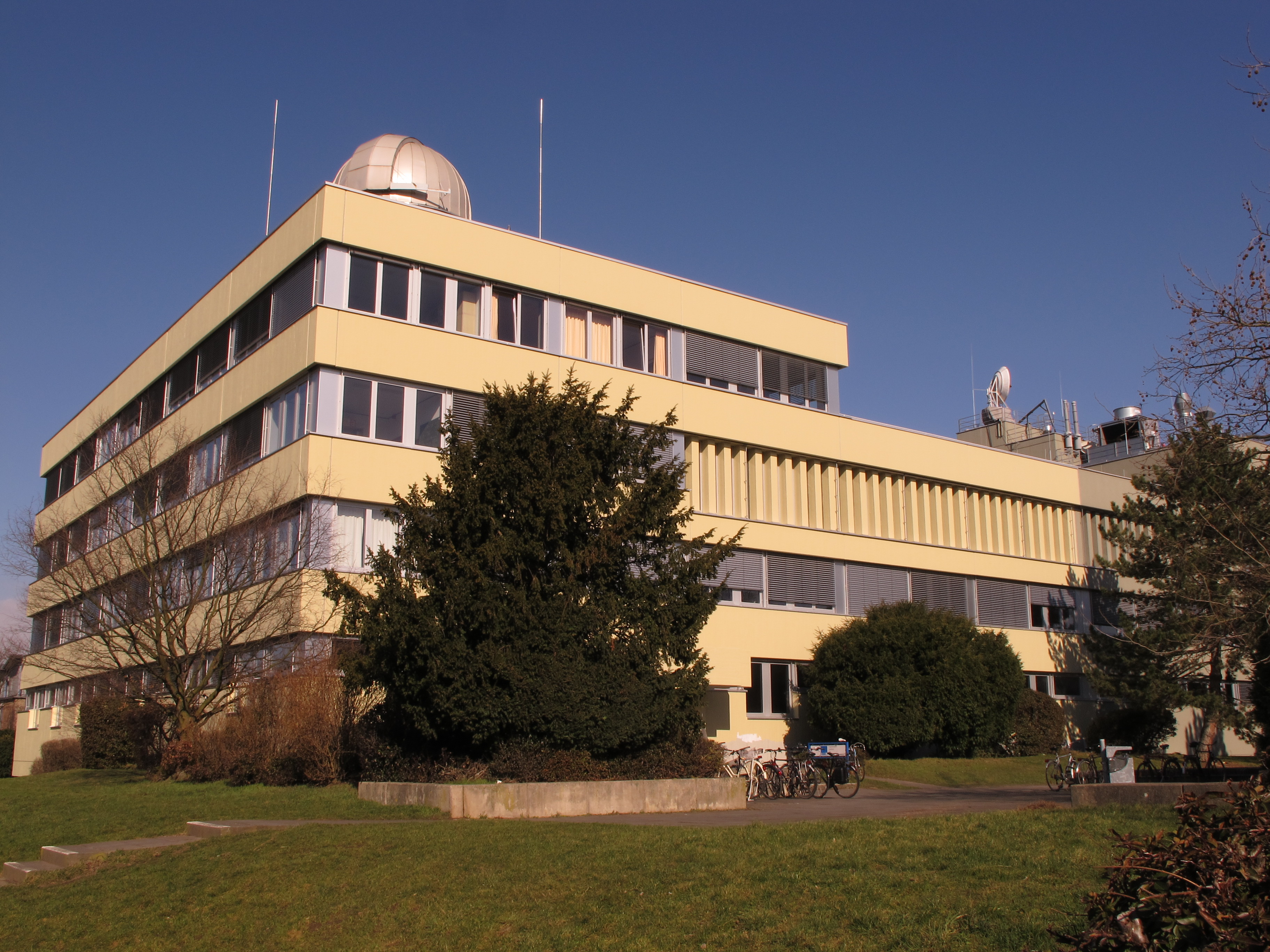 The Argelander-Institute for Astronomy of the University of Bonn. It occupies the southern wing of the building while the rest belongs to the Max Planck Institute for Radioastronomy. The border between both institutes is visible by the different front colour.